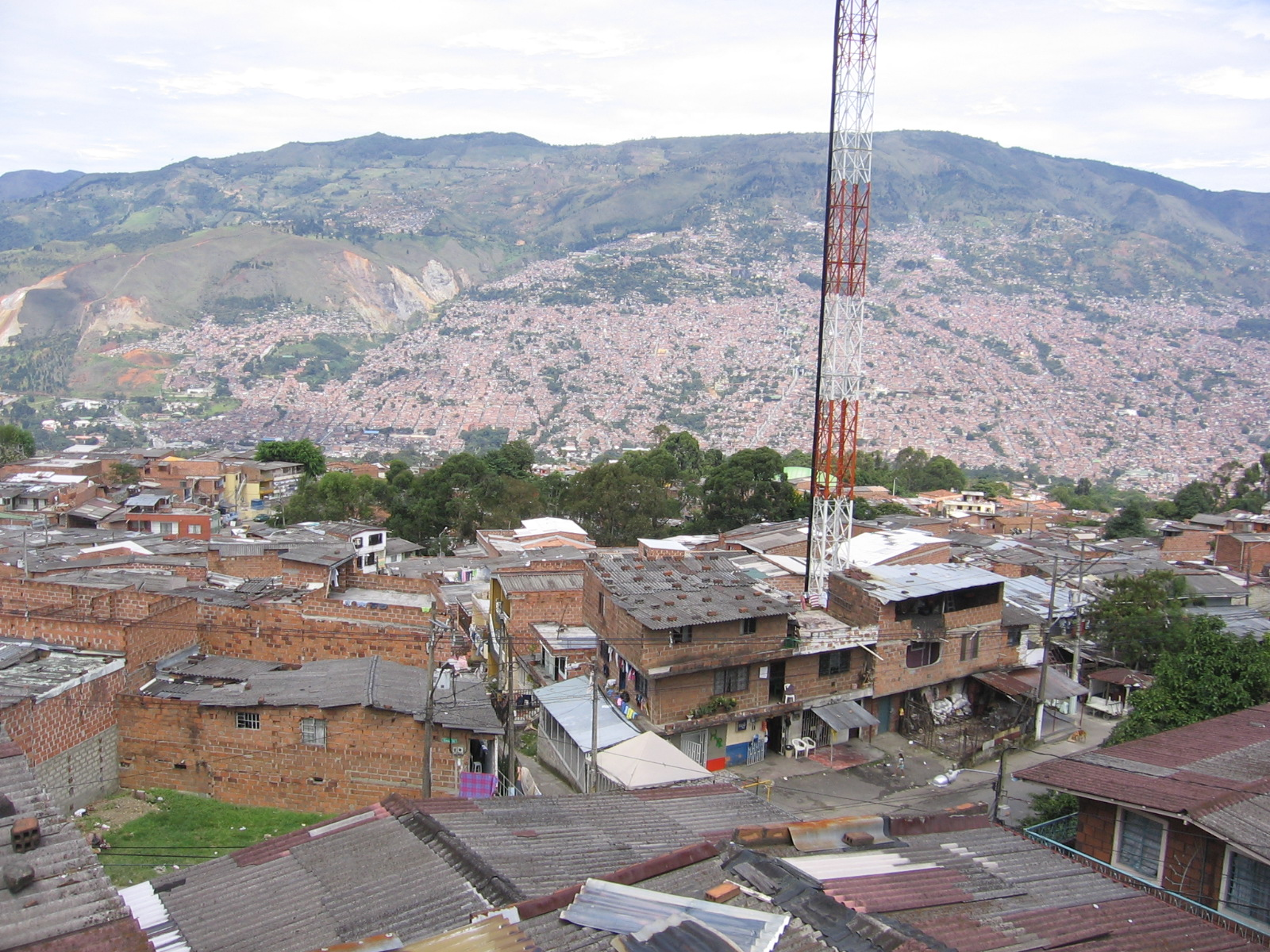 A view of the northern districts of Medellín, Antioquia, Colombia. The picture was taken from Doce de Octubre quarter, at the north-west hill toward the east.